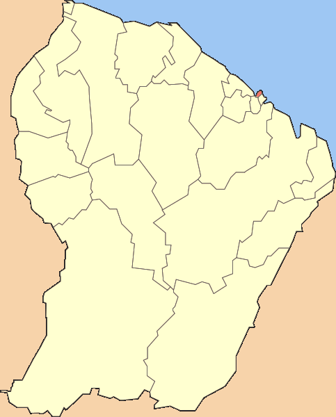 Map of French Guiana. Cayenne, the capital of the departmant is shown in red colour.